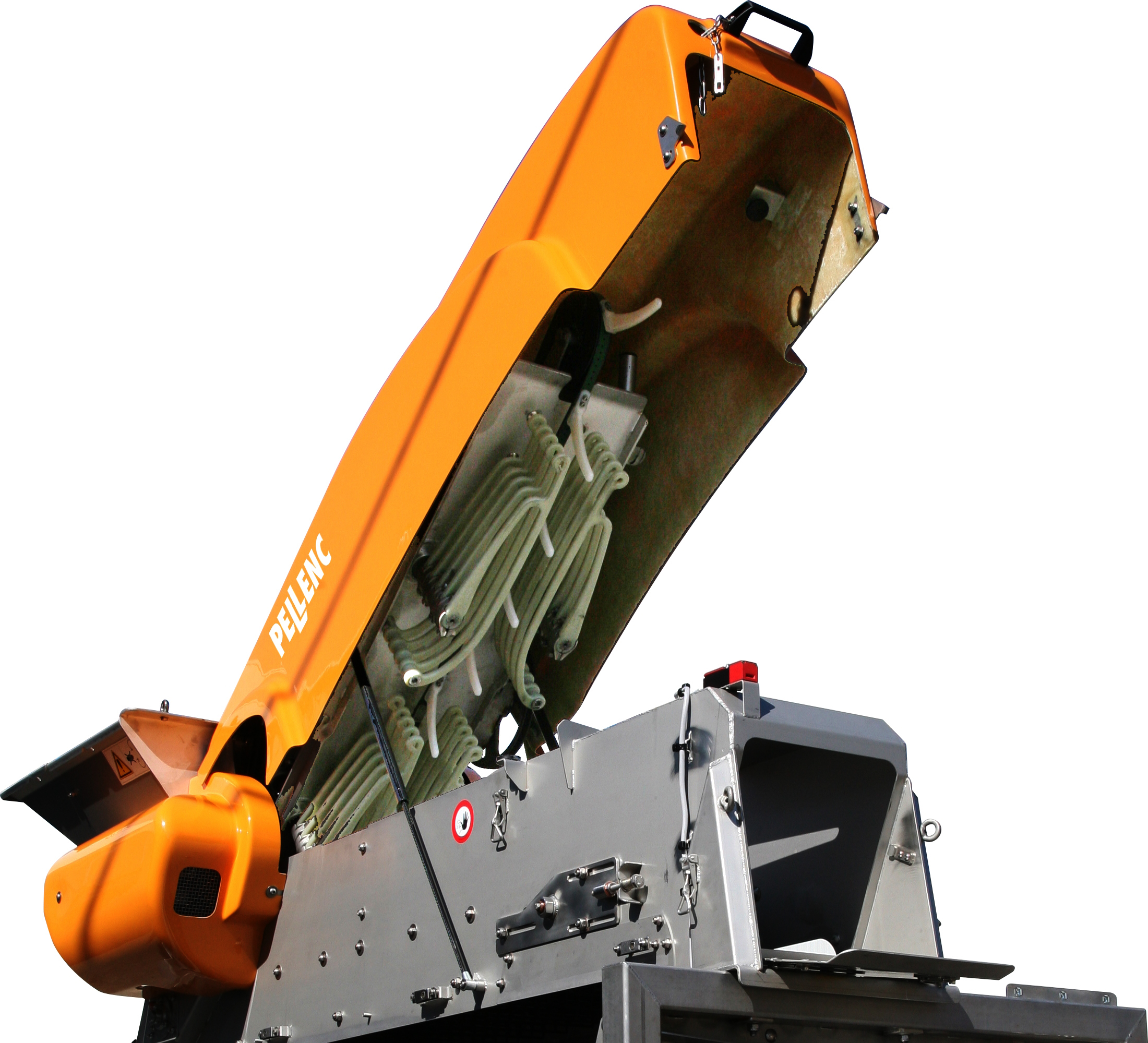 SP WINERY M